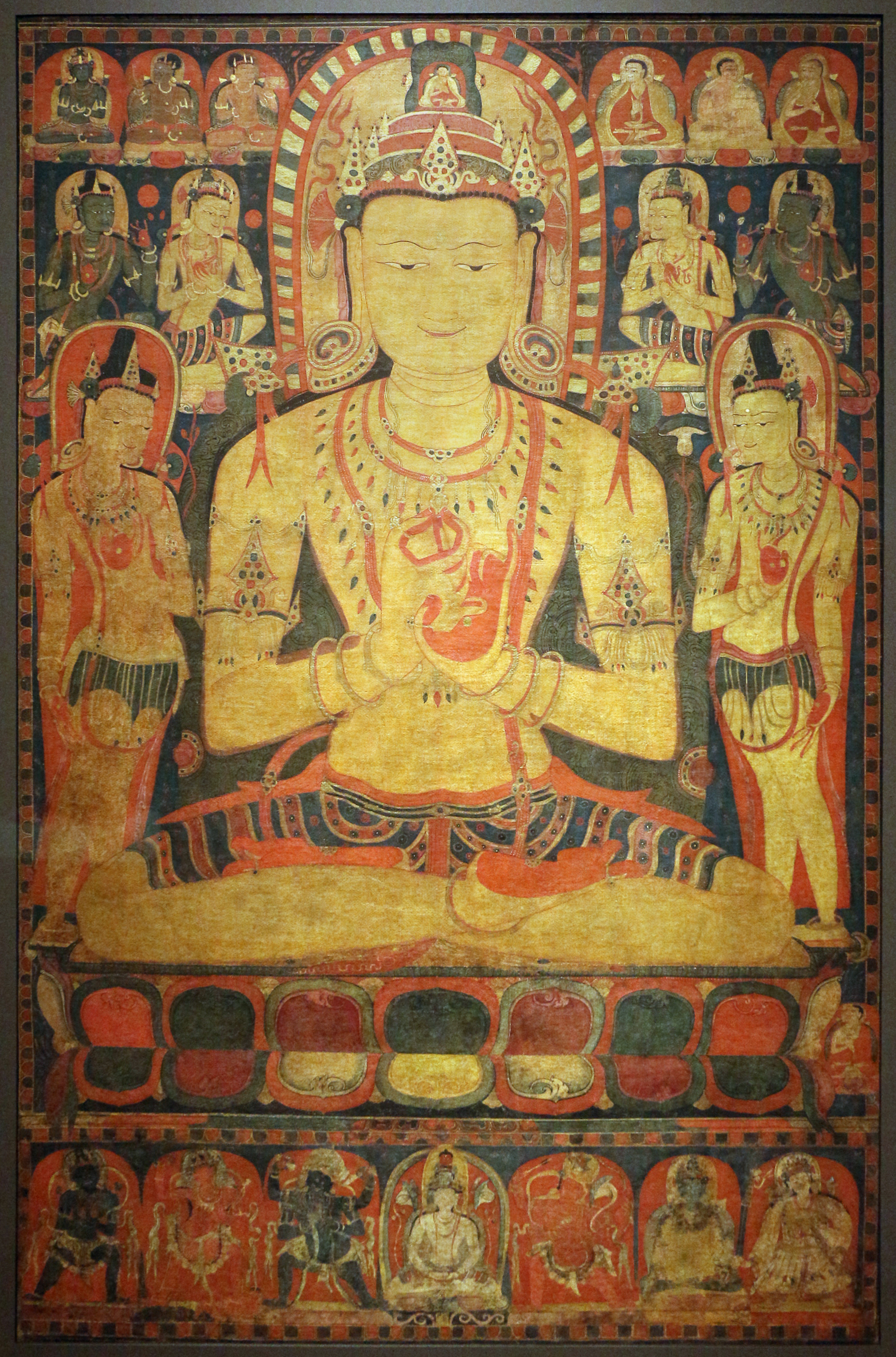 Art of Himalaya in the Cleveland Museum of Art